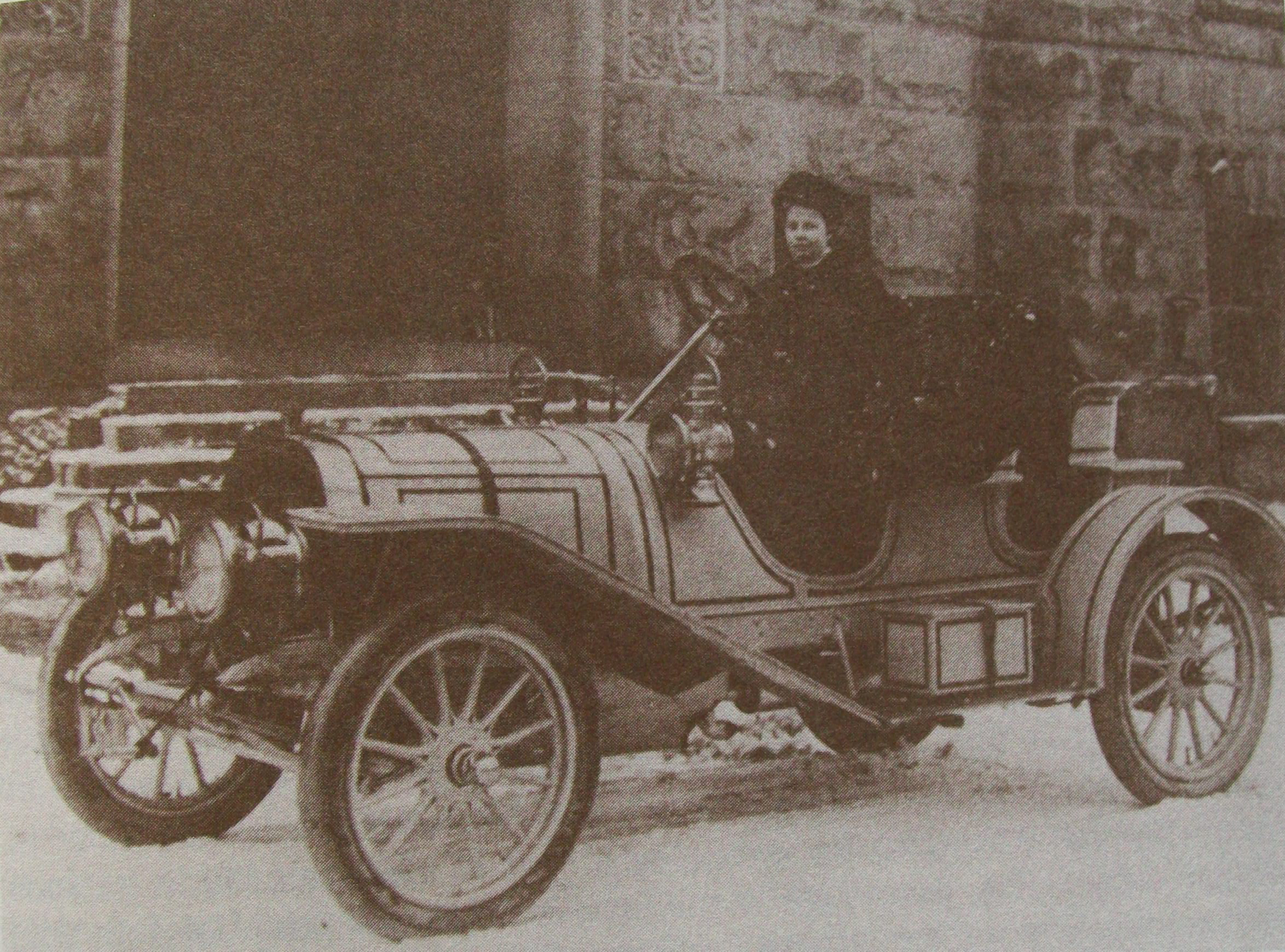 Bernice Haynes driving a Haynes Company car in front of Kokomo city hall in 1910